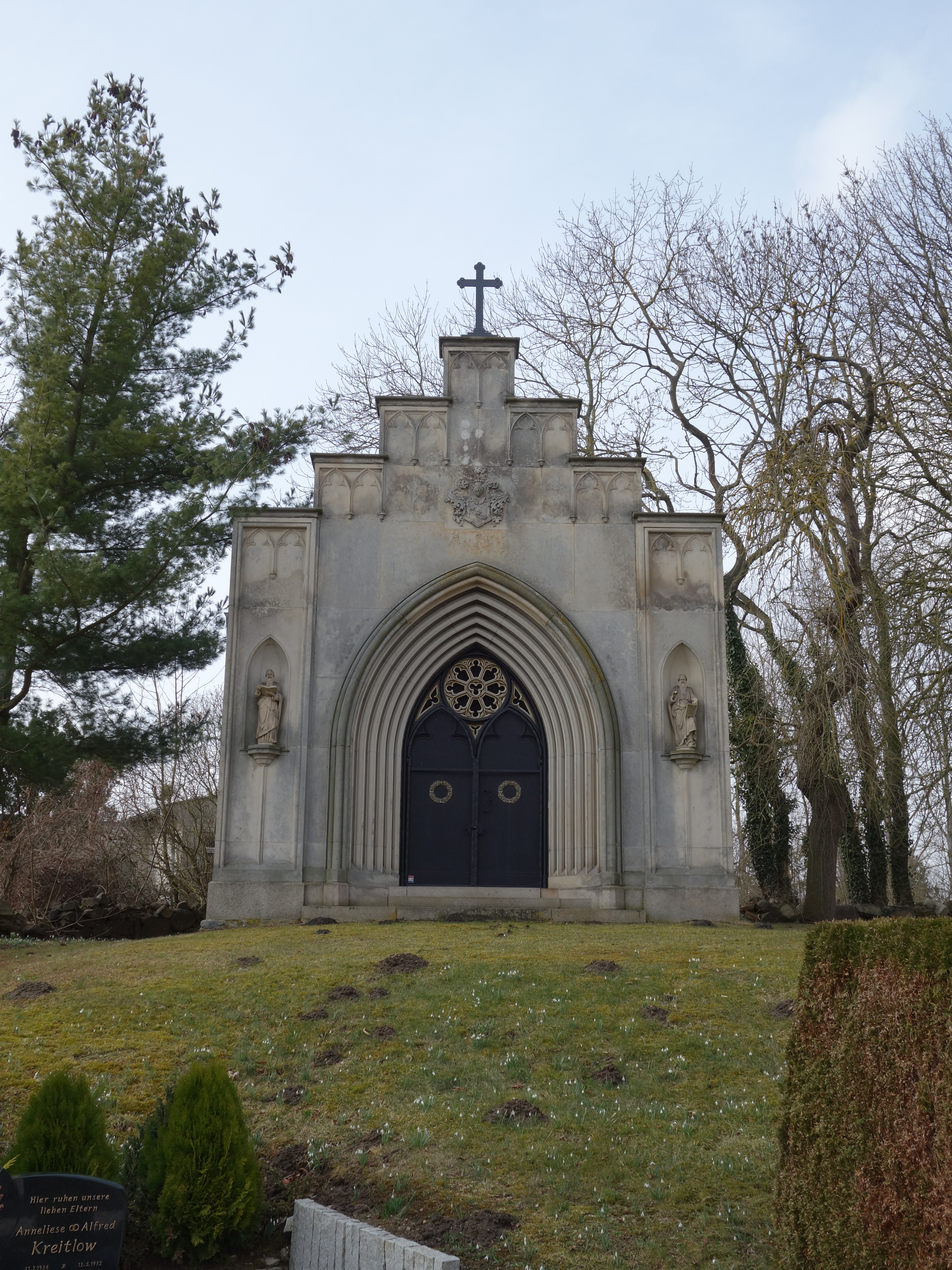 Mausoleum of von Klützow family in Dedelow, Prenzlau municipality, Uckermark district, Brandenburg state, Germany